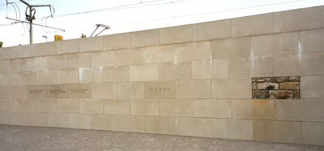 Wall of the New Synagogue at Dresden, Germany, incorporating the only remaining fragments of the original synagogue designed by Gottfried Semper, destroyed in “Kristallnacht” 1938.